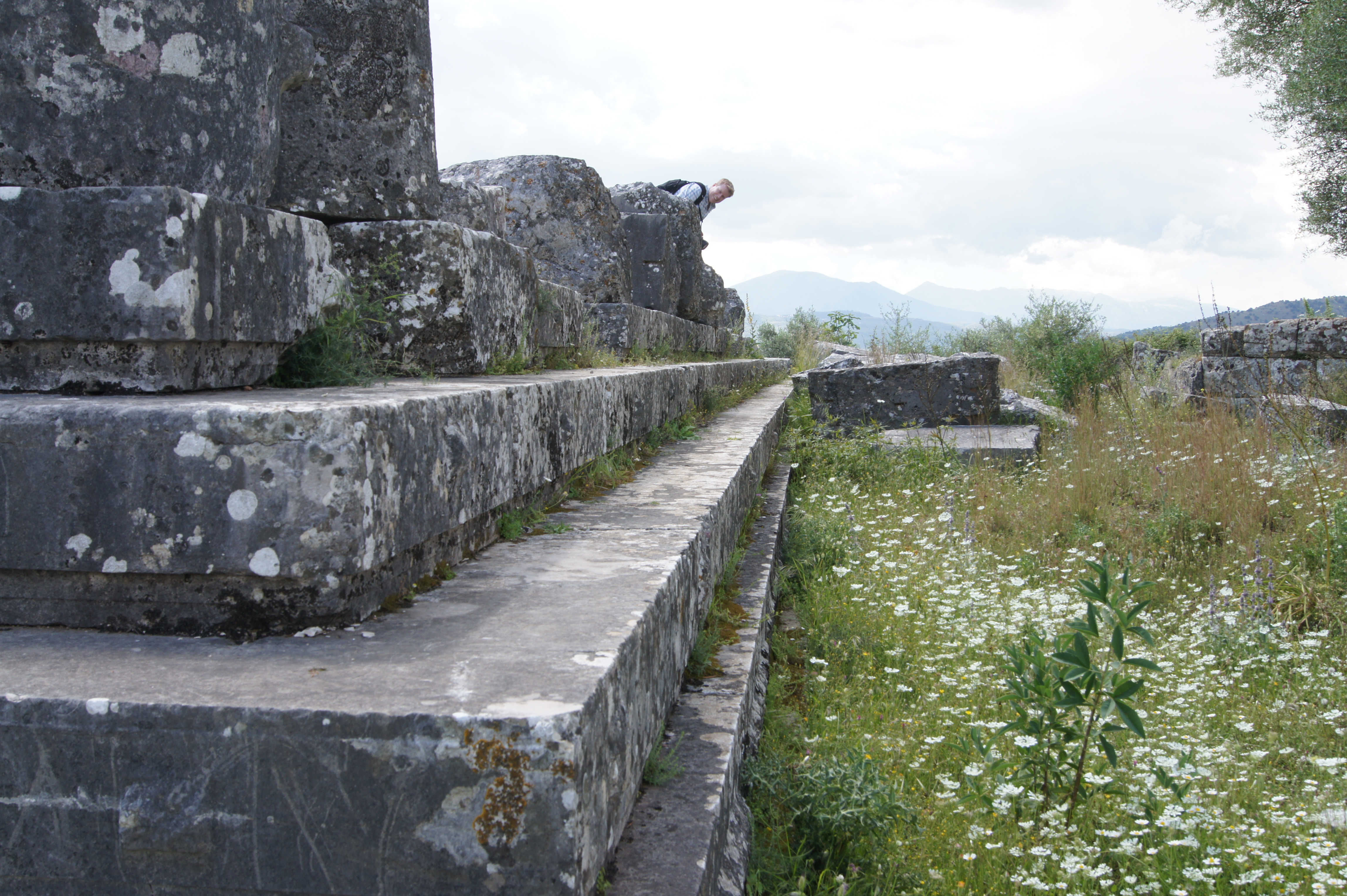 Stratos Temple 1